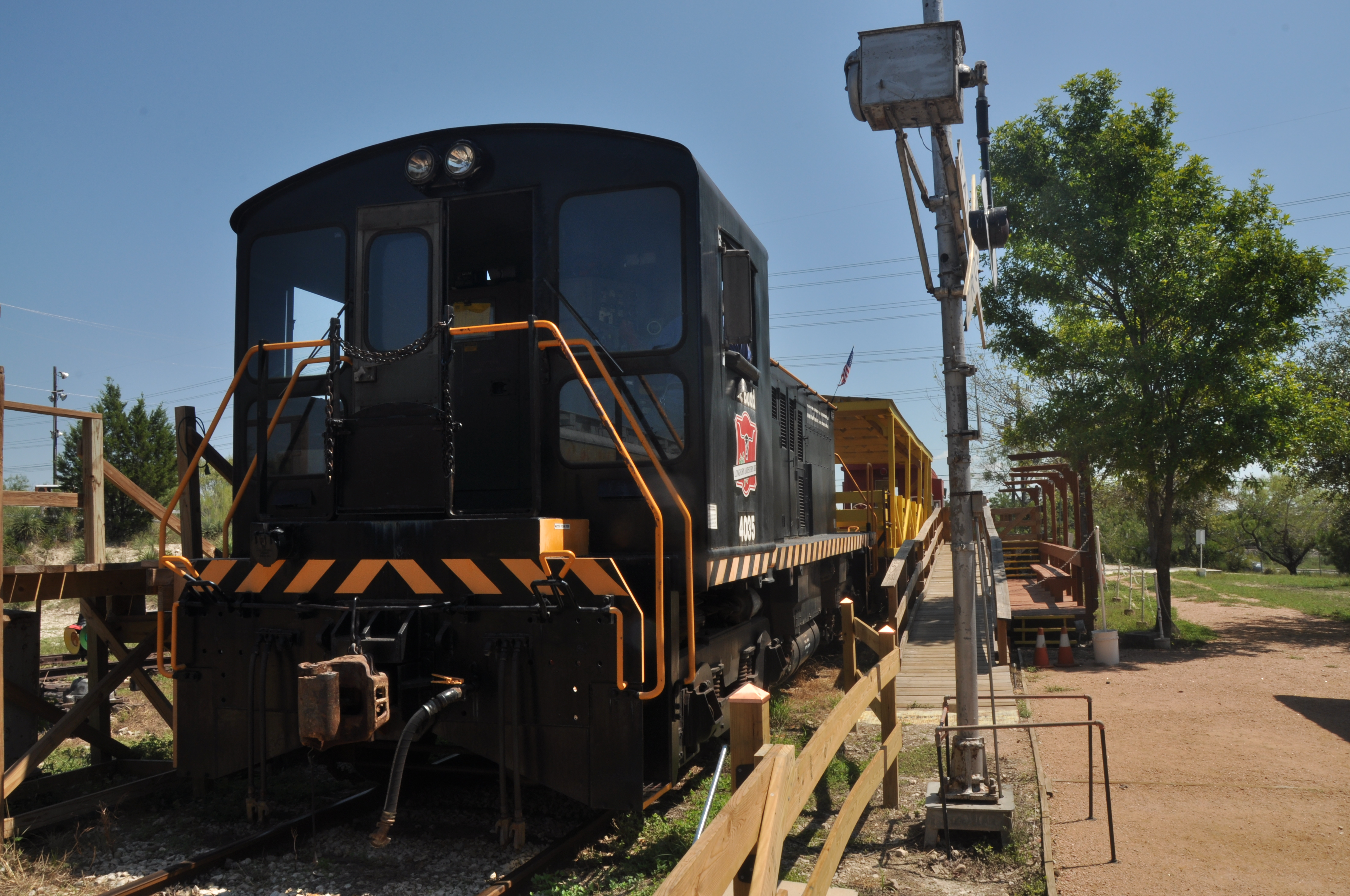 Locomotive at Texas Transportation museum in San Antonio, Texas